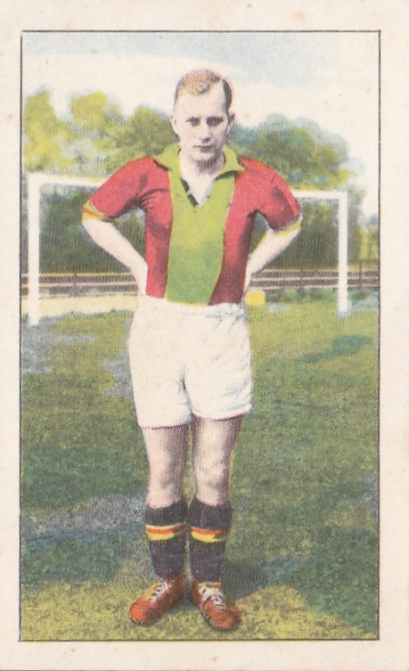 Dutch football player Willem Tap (1931)